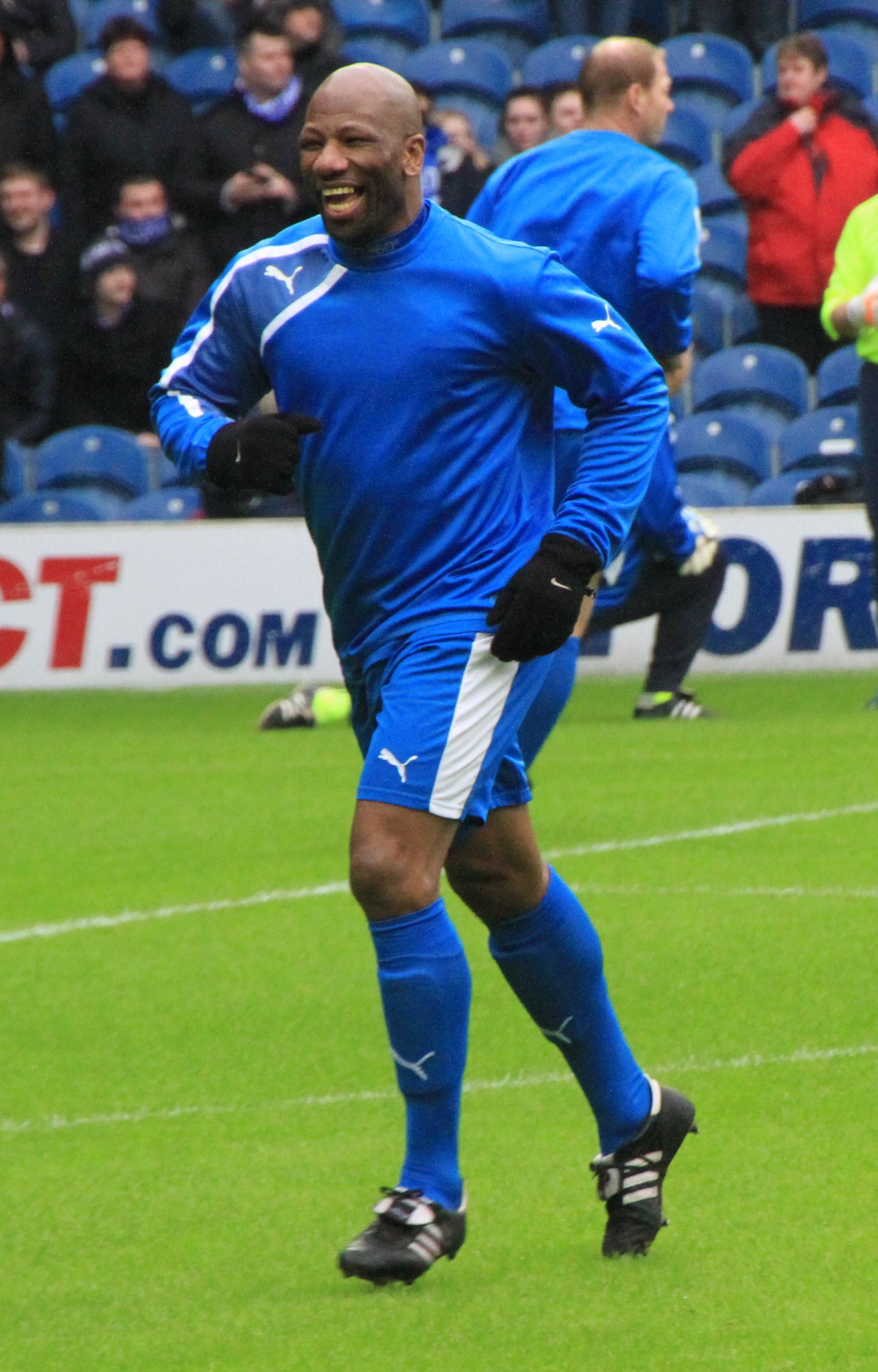 Marvin Andrews during Fernando Ricksen's tribute match in January 2015.